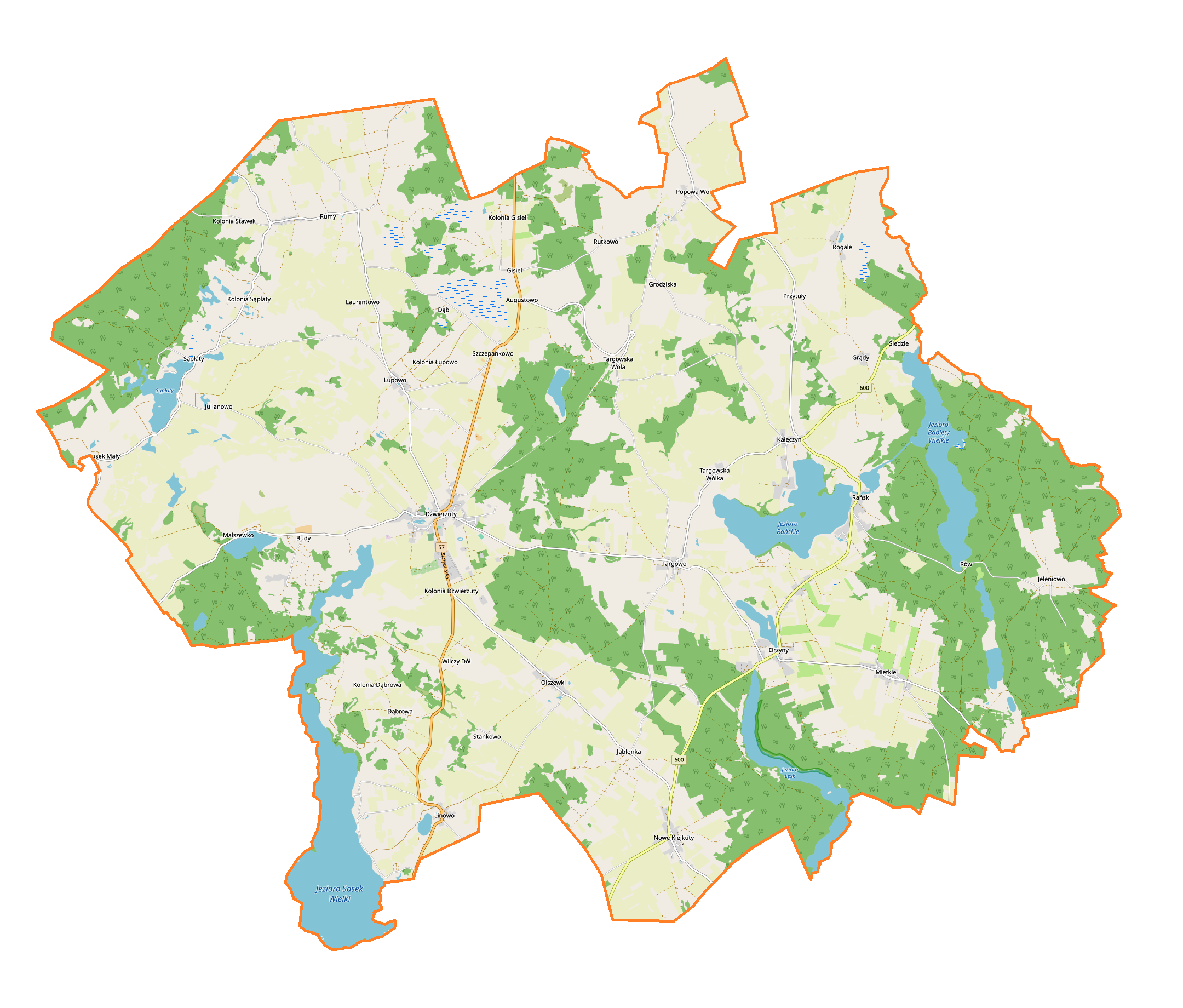 Location map